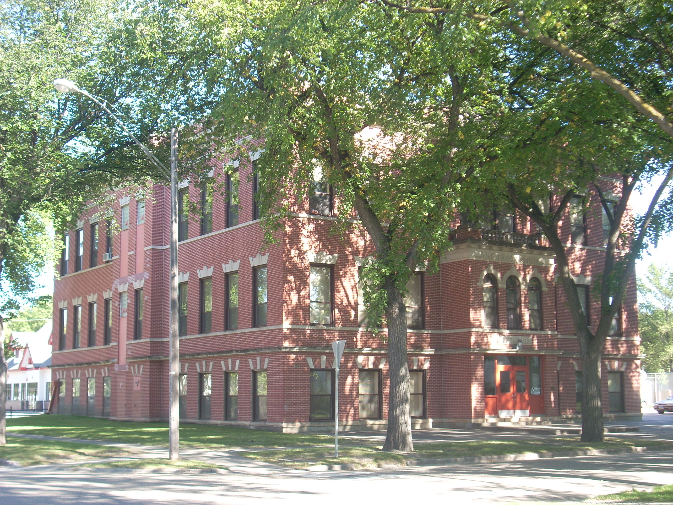 Washington School, 422 N 6th St, Grand Forks North Dakota. Added to the National Register of Historic Places on February 24, 1992.